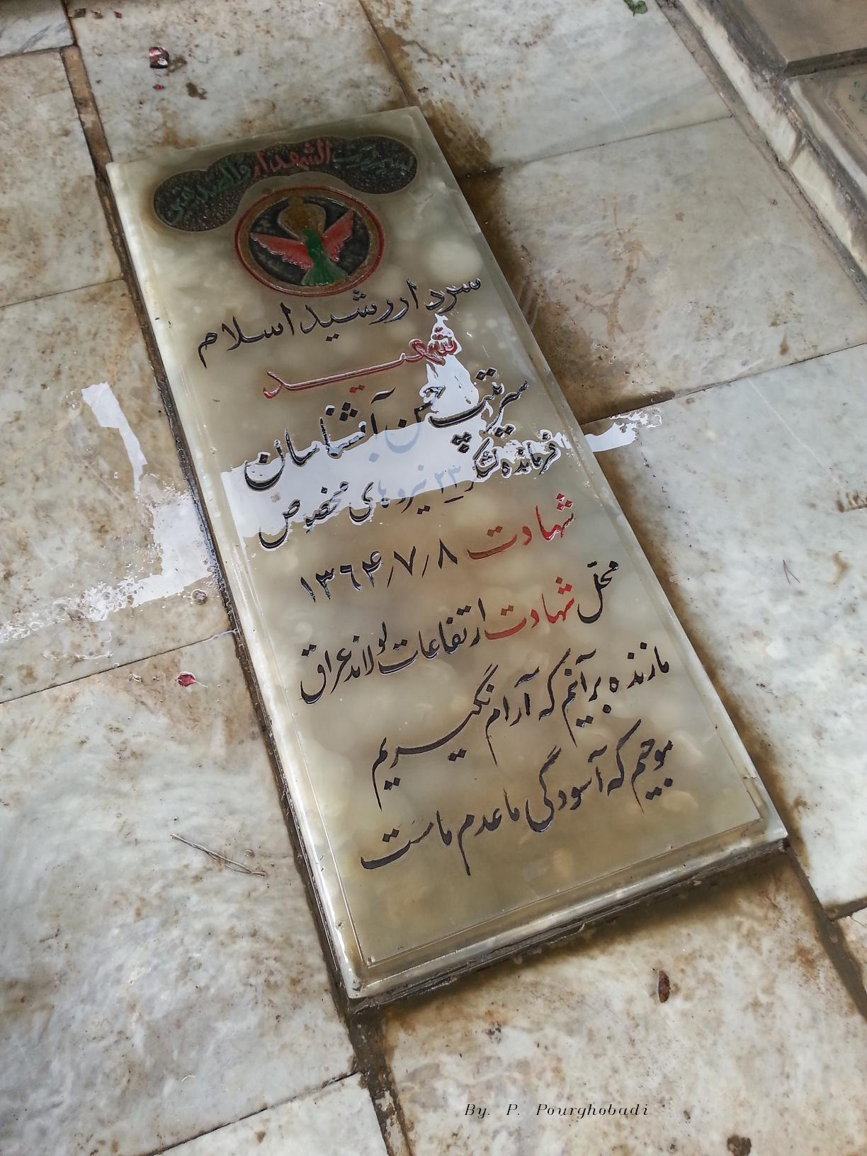 General Hasan Abshenasan tomb